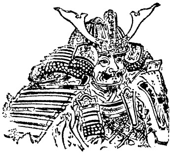 Portrait of Saiitô Sanemori